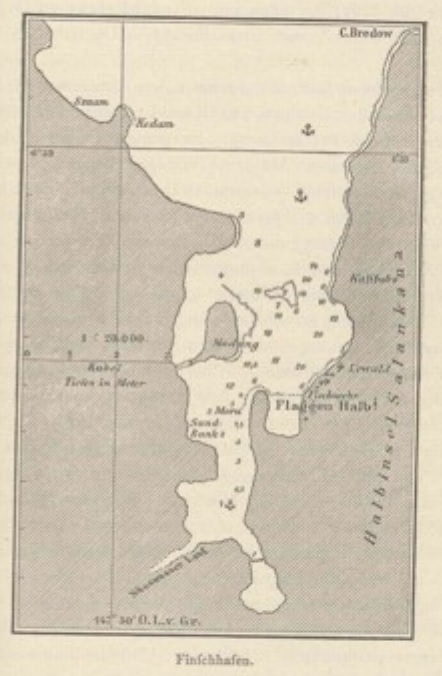 Map of Finschhafen - Papua New Guinea - 1884 - 1885 Accessed via the World Digital Library